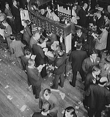 New York stock exchange, New York City.